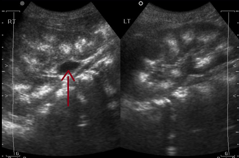 Case courtesy of Dr Fazel Rahman Faizi, , rID: 69363